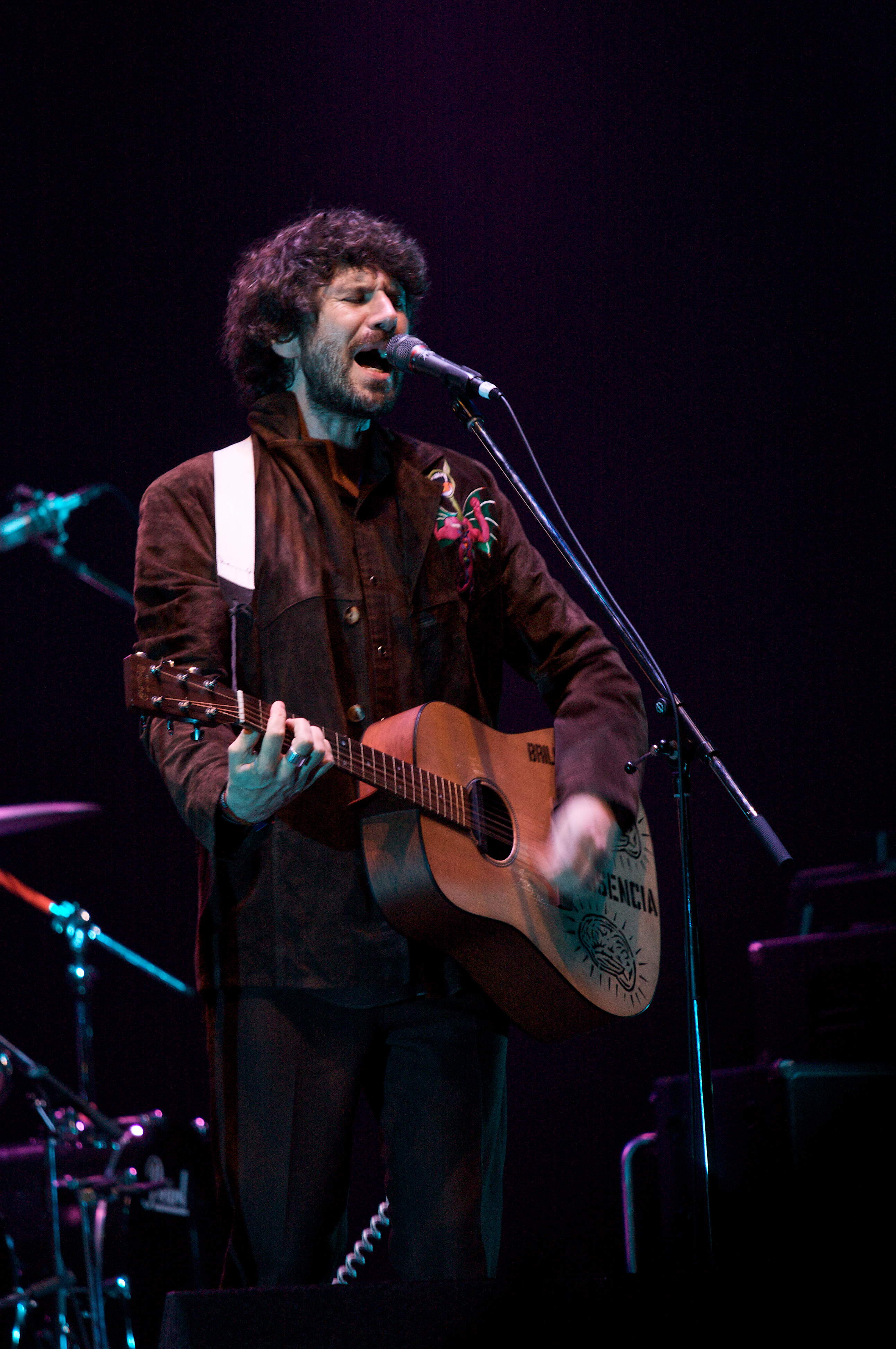 Gruf Rhys performing with the Super Furry Animals at the Summersonic Festival, Tokyo, Japan, 2008.